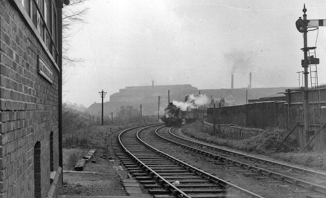 Site of Brymbo West Crossing Halt, near to Brymbo, Wrexham/Wrecsam, Great Britain. View SE, toward Brymbo and Wrexham; ex-Great Western, Wrexham - Brymbo - Minera (Berwig Halt) line. The Halt closed when the passenger service ceased on 1/1/31, but the line remained open for goods until 1/10/82. A Down freight is approaching, headed by a 56XX 0-6-2T; beyond is Brymbo Steelworks.